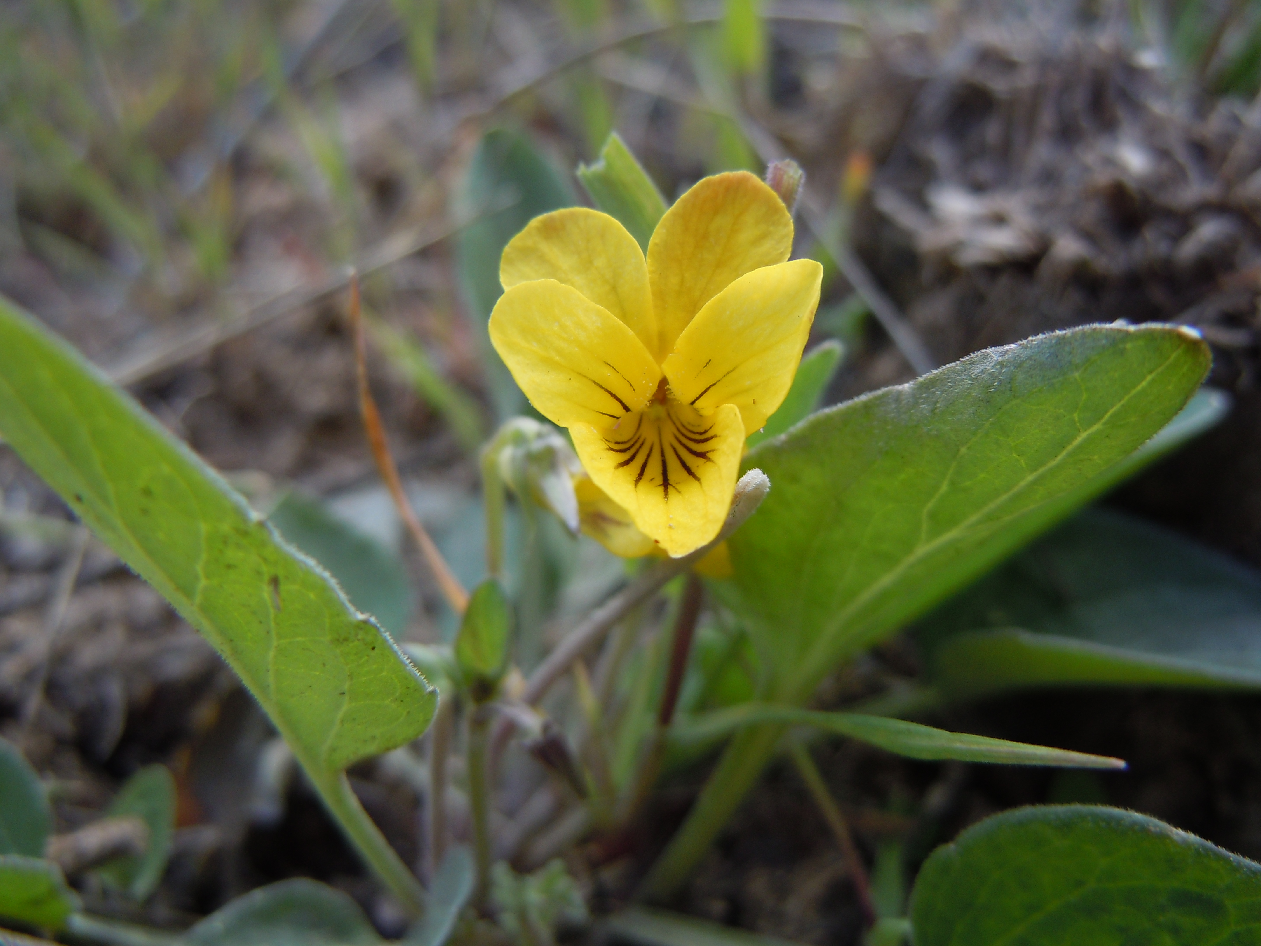 This herb is most conspicuous in flower during the very early summer but the leaves persist throughout much of June on an average year.